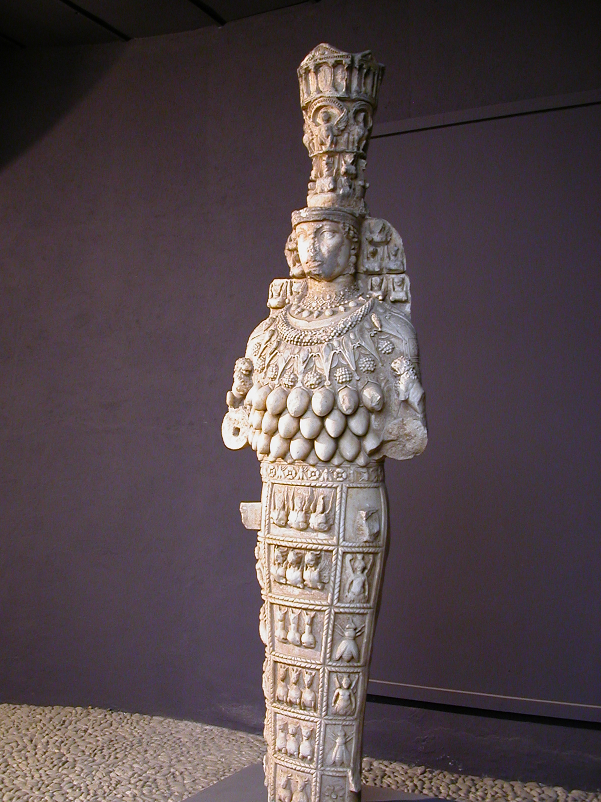 Artemis of Ephesus. 1st century CE Roman copy of the cult statue of the Temple of Ephesus. Statue in the Efes Müzesi (Turkey).